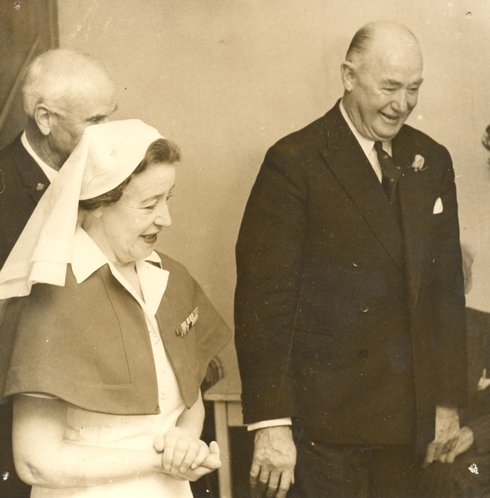 Sir Arthur Porritt visits Levin War Veterans Home. Accompanied by Sister M. Stewart, matron of the Levin War Vets. Home and Dr J. McHaffie